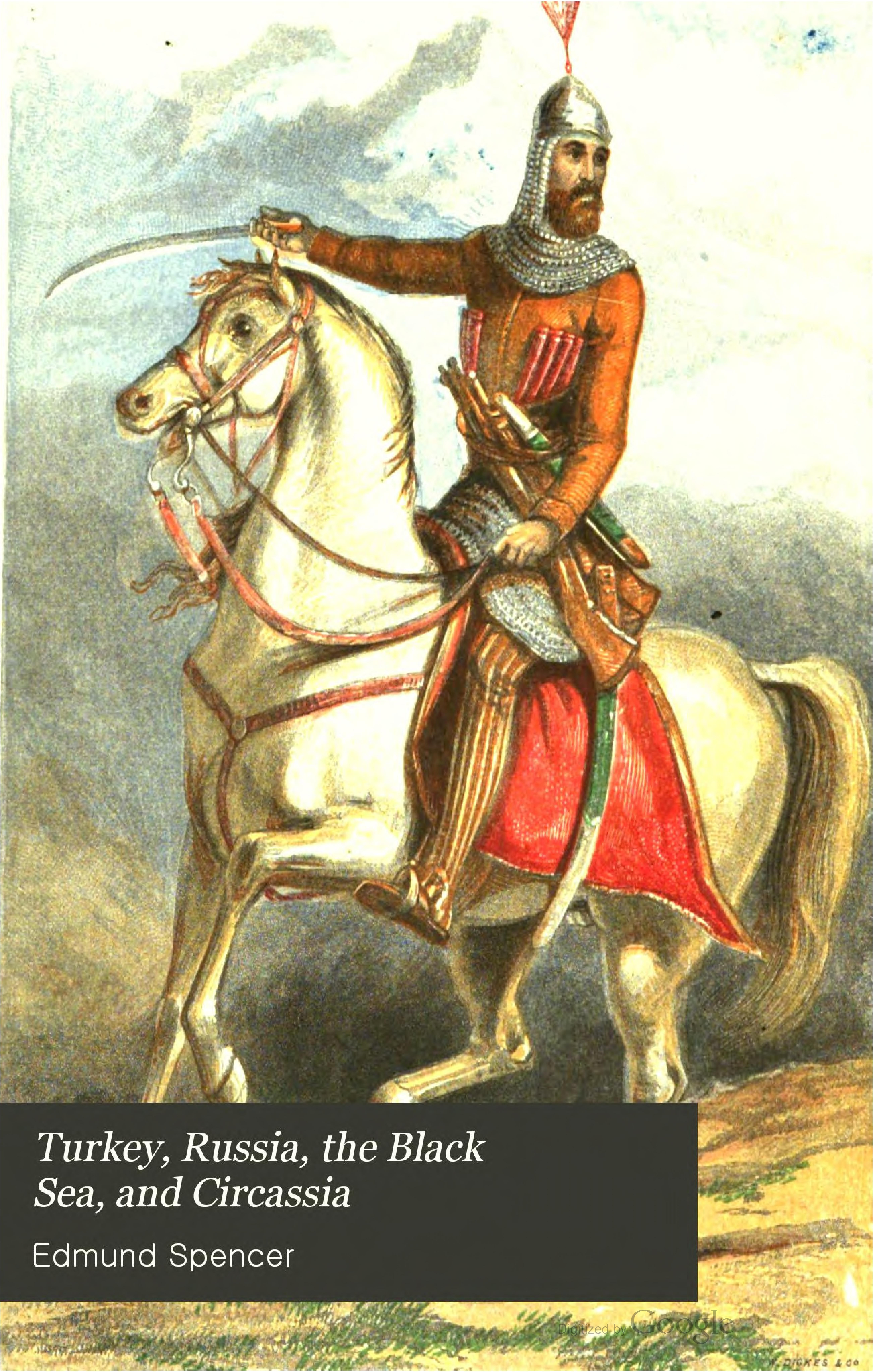 Schamil Bey. Edmund Spencer, Turkey, Russia, the Black Sea, and Circassia